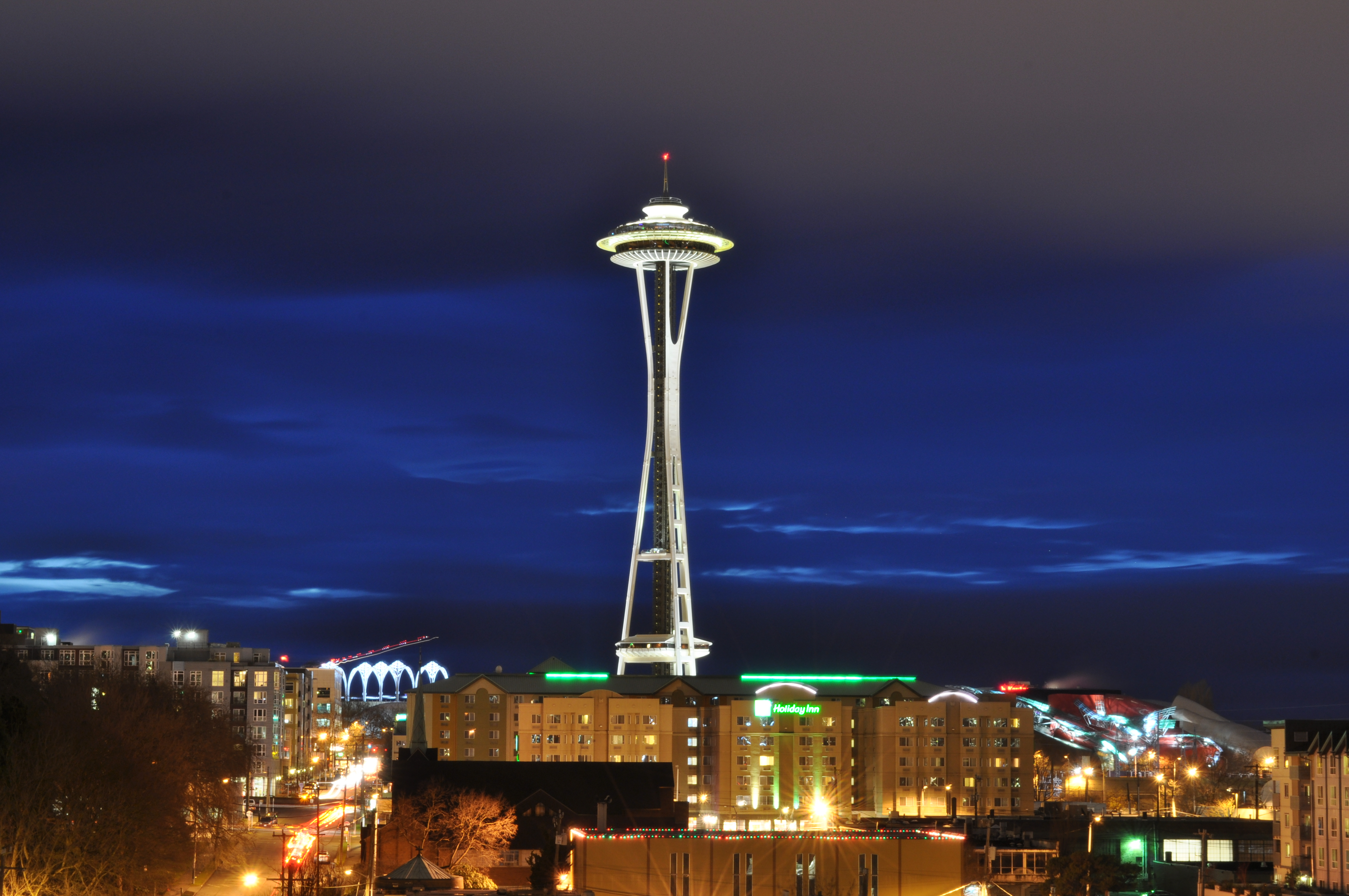 Space Needle, Seattle, Washington at dusk. One of a series of similar images at different exposures.